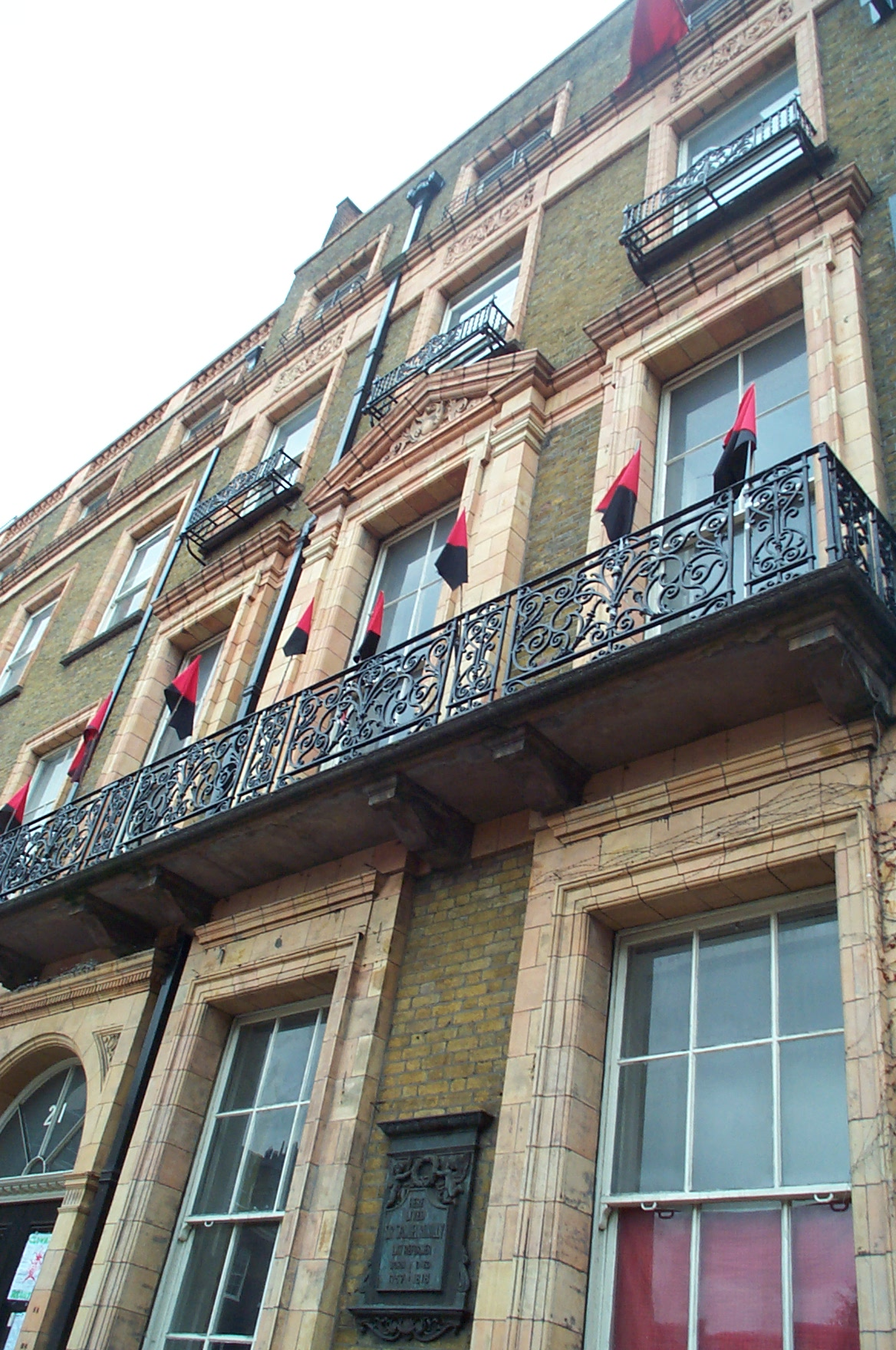 The "London Social Centre" [1], a squatting action in Russell Square. Photograph taken 2006-03-29. Copyright © 2006 Kaihsu Tai. Also see Image:LondonSocialCentreRussellSquareSquat1 20060329KaihsuTai.jpg.